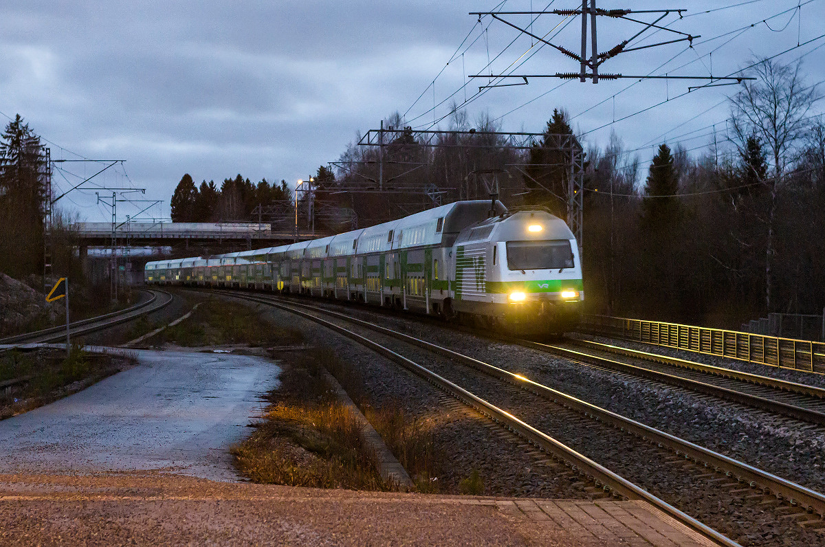 Intercity 27 double-decker train from Helsinki to Rovaniemi passes Koivukylä railway station in Vantaa, Finland.